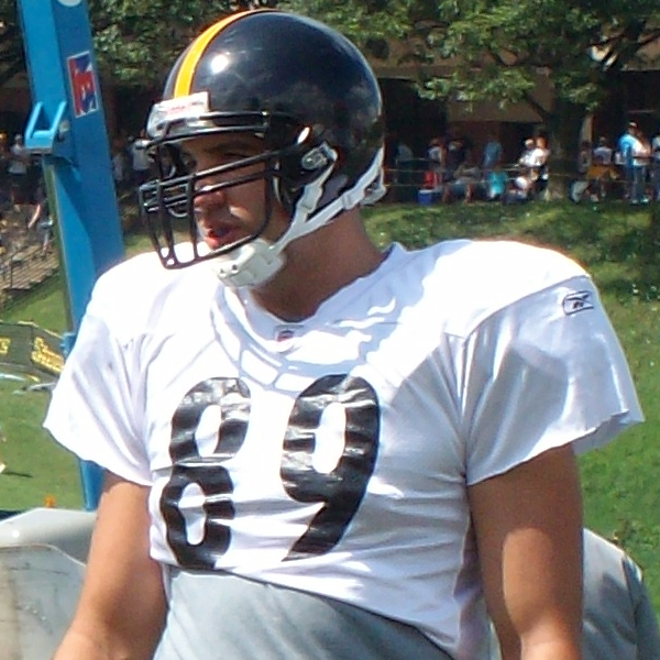 photo of Matt Spaeth in summer 2008